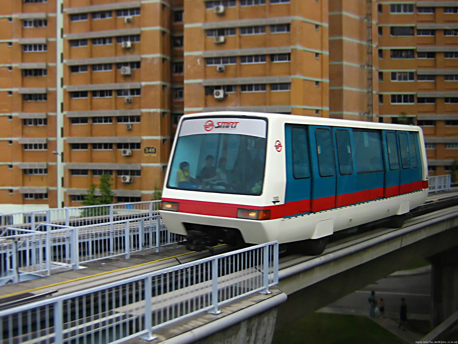 A Bombardier CX-100 Car on the Bukit Panjang LRT in Singapore. Img by Calvin Teo, January 2006